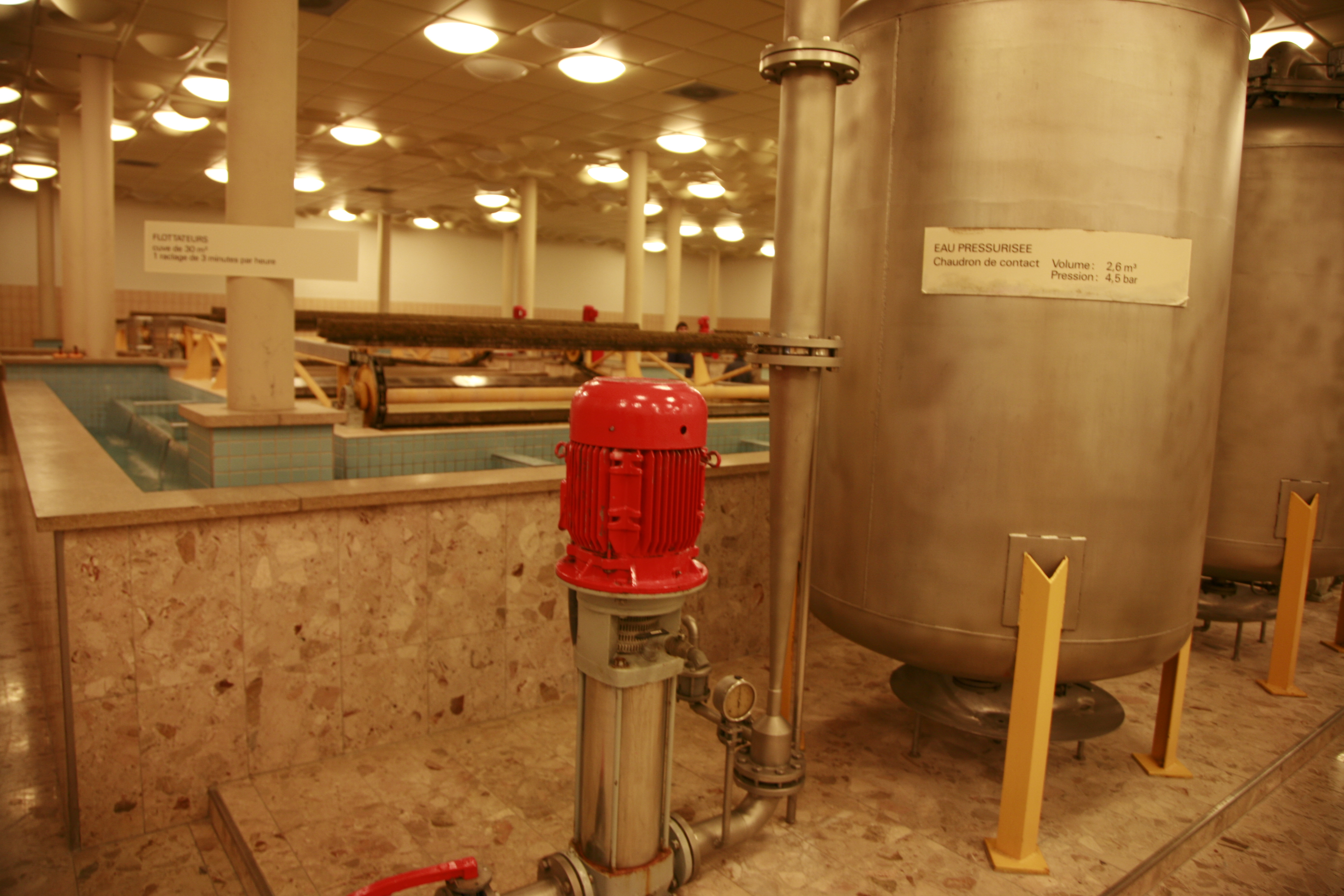 Water purification systems a Bret lake, Switzerland